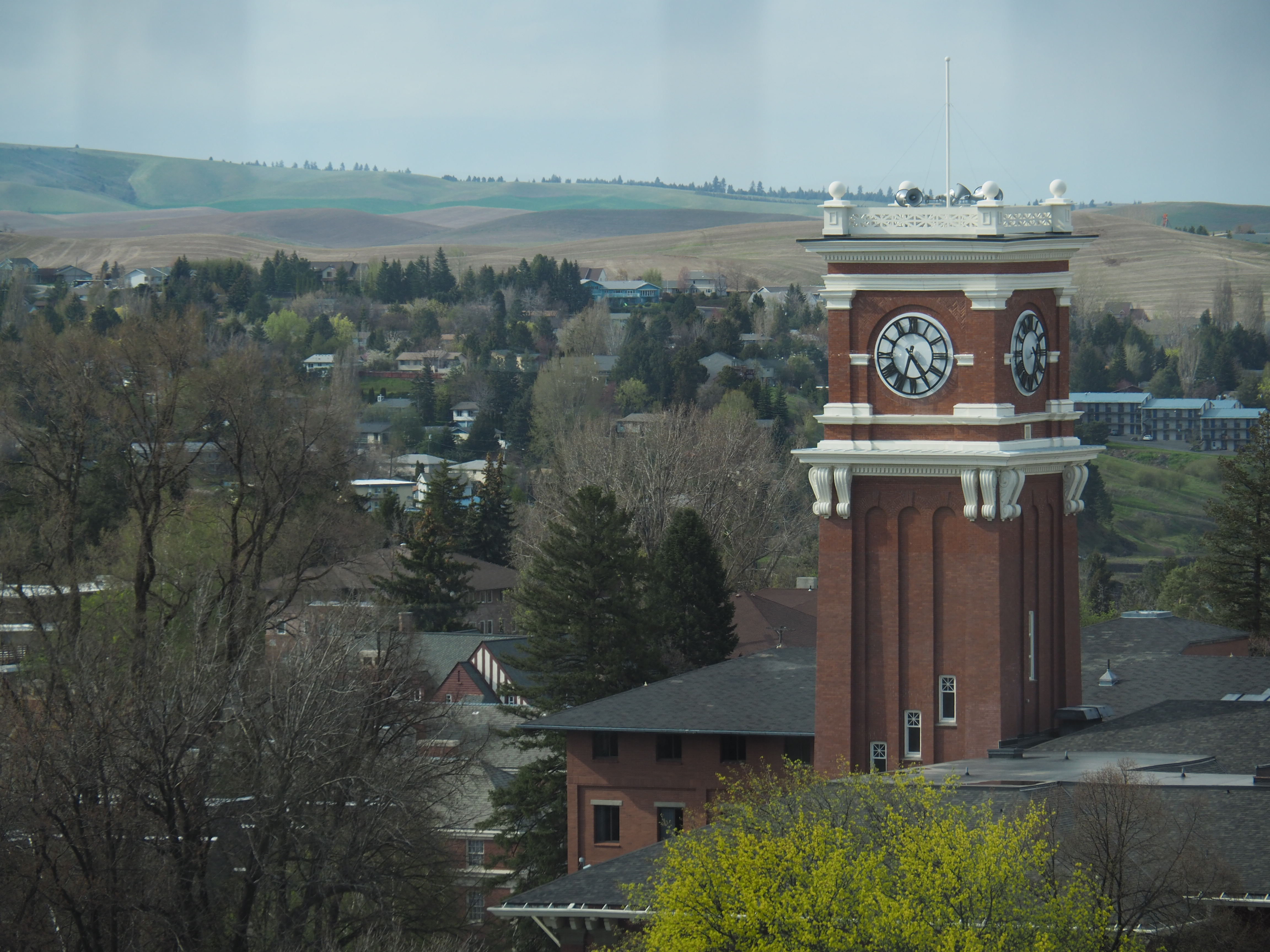 WSU's Bryan Hall clock tower, as seen from the Webster building on campus, Palouse hills in thc background.